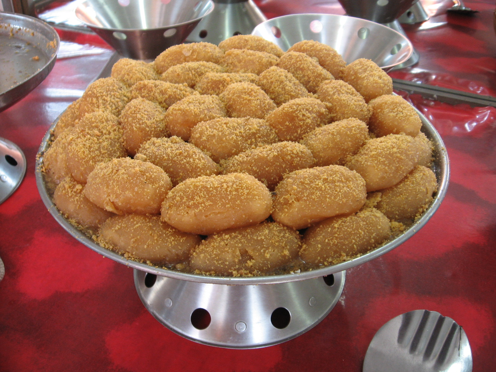 Potabarir Chomchom, famous sweetmeat in Tangail, Bangladesh.